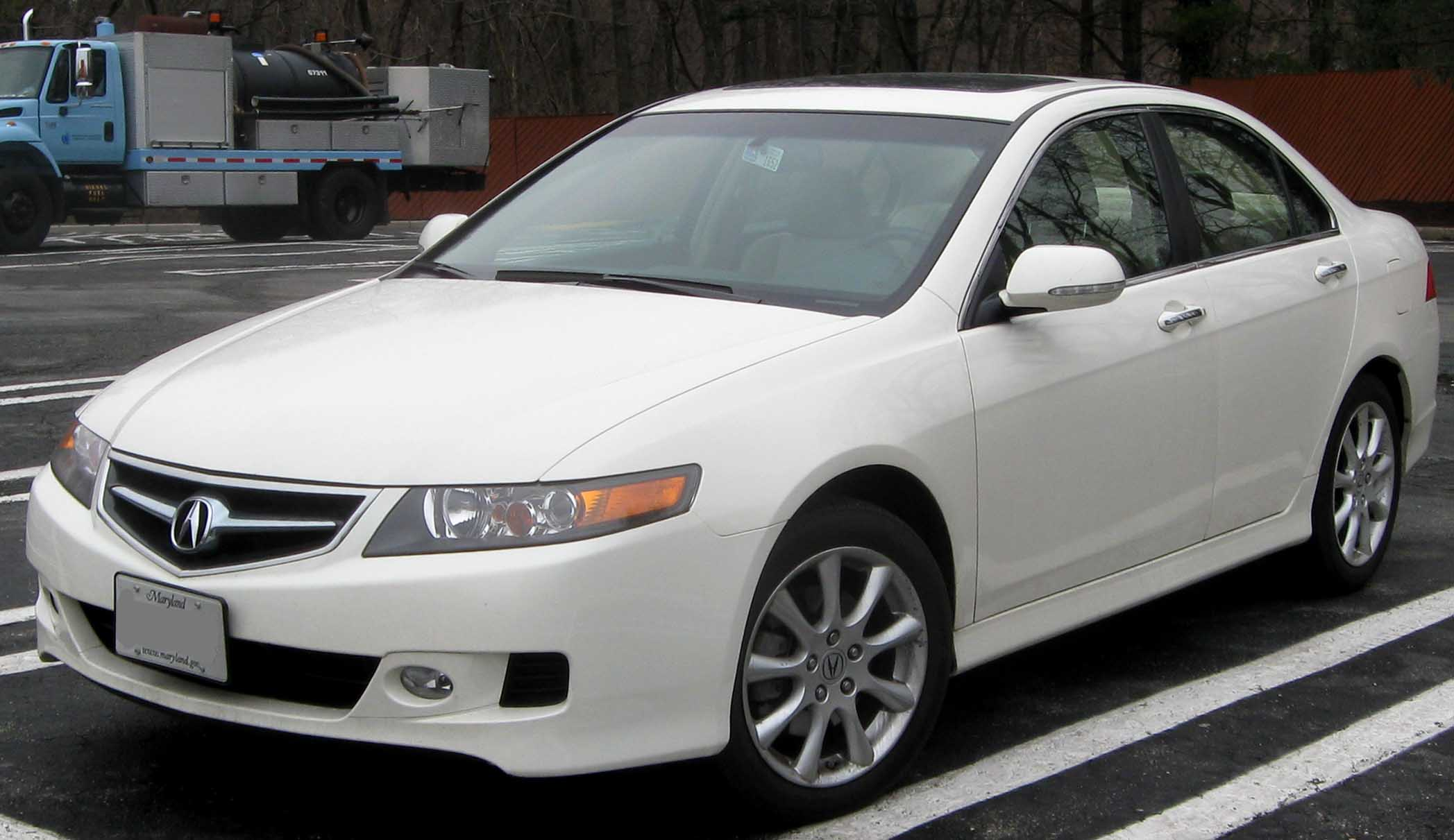 2006-2008 Acura TSX photographed in Rockville, Maryland, USA.